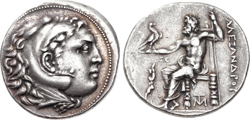 SIKYONIA, Sikyon. Circa 225-215 BC. AR Tetradrachm (29mm, 16.82 g, 9h). In the name and types of Alexander III of Macedon. Head of Herakles right, wearing lion skin / Zeus Aëtophoros seated left; in left field, ΞE above youth standing left, holding tainia overhead; TM monogram below throne.